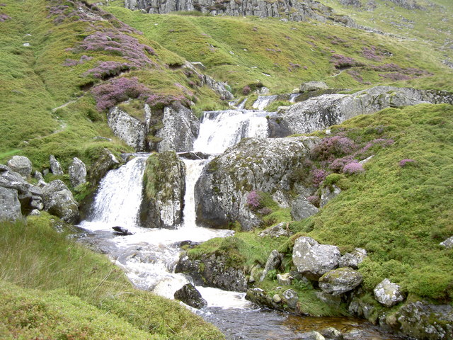 Waterfall on Afon Goch